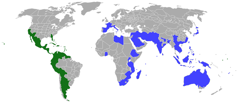 Acacia farnesiana range map created with a blank map from the Commons, info from ILDIS LegumeWeb and the GIMP.